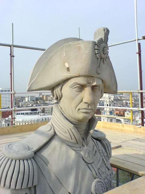 A close up of the statue of Nelson atop Nelson's Column, taken during the 2006 refurbishment.